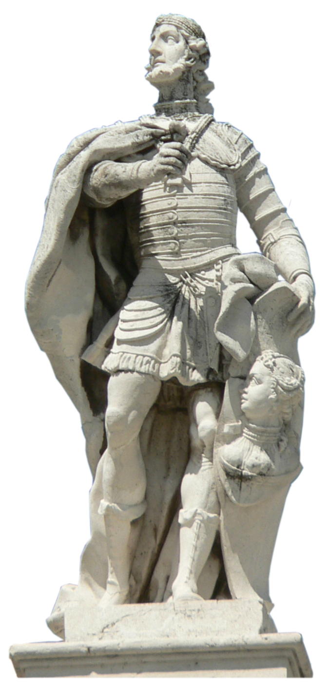 Statue of Ervigio, Visigoth King. On the balustrade of Royal Palace, Madrid